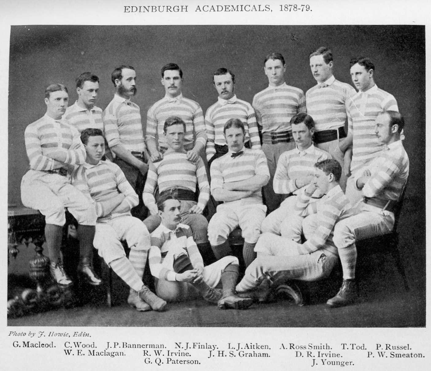 The Edimburgh Academicals (nicknamed Accies) team for the 1878-79 season.